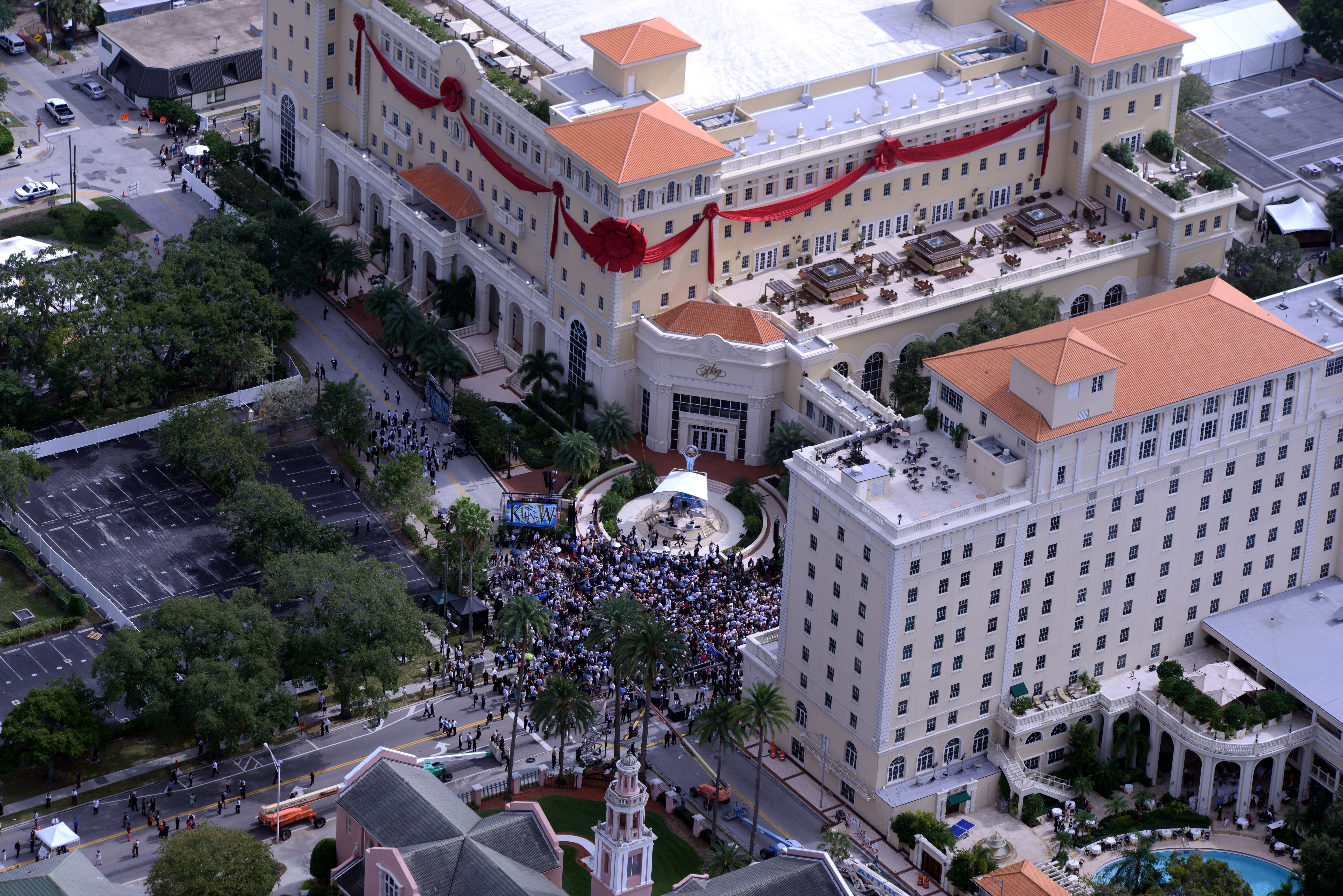 On 17 November 2013 Scientology Supreme Leader David Miscavige cut the ribbon to open Scientology's Superpower building in Clearwater, Florida. Hundreds of Scientologists cheered him on. Mike Rinder and I documented the event with video and photos from the sky with a helicopter.